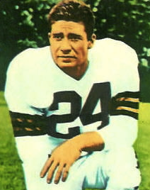 Warren Lahr, American football defensive back, on a 1954 Bowman football card.